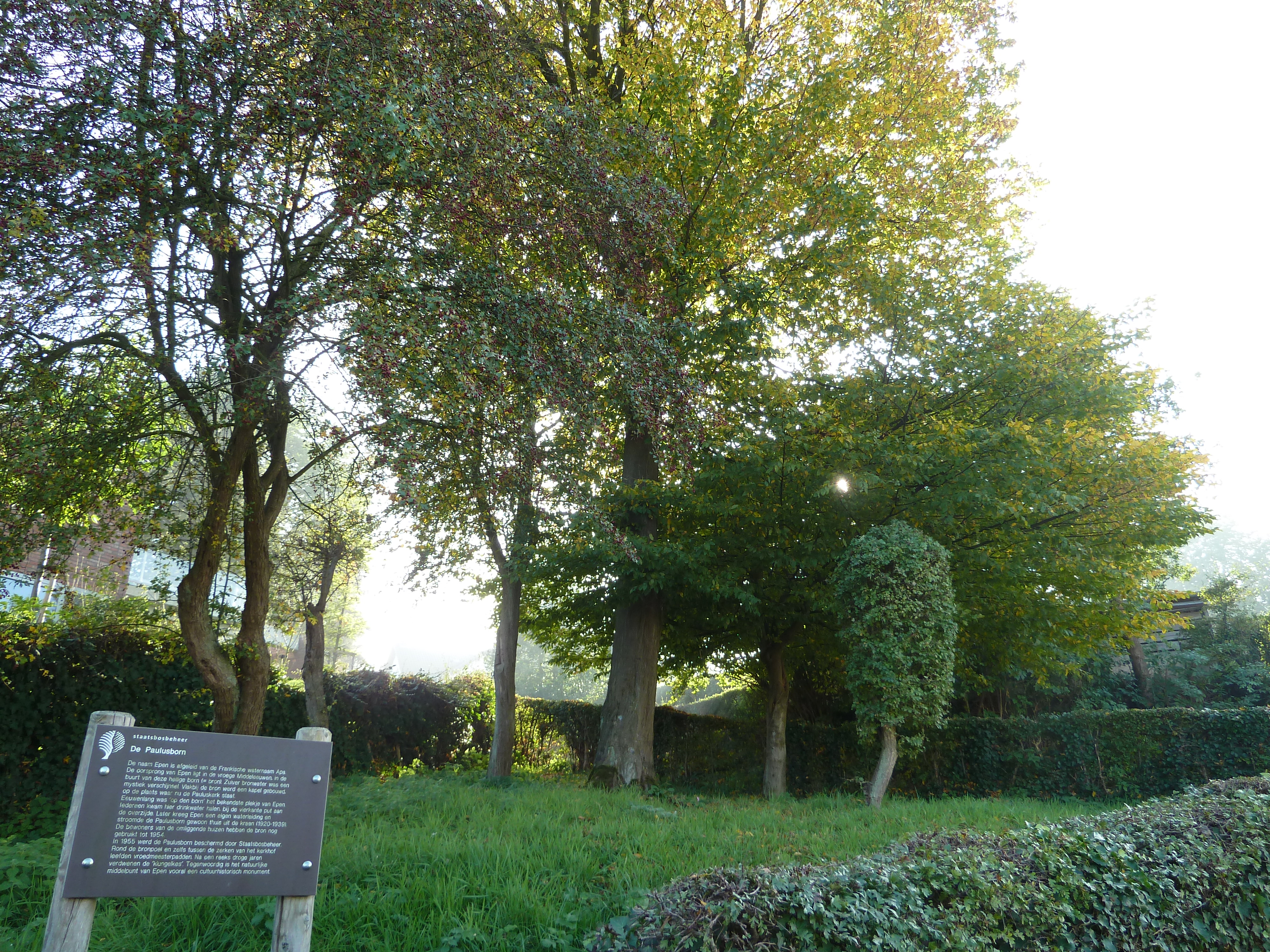 De Paulusborn, Epen, Limburg, the Netherlands